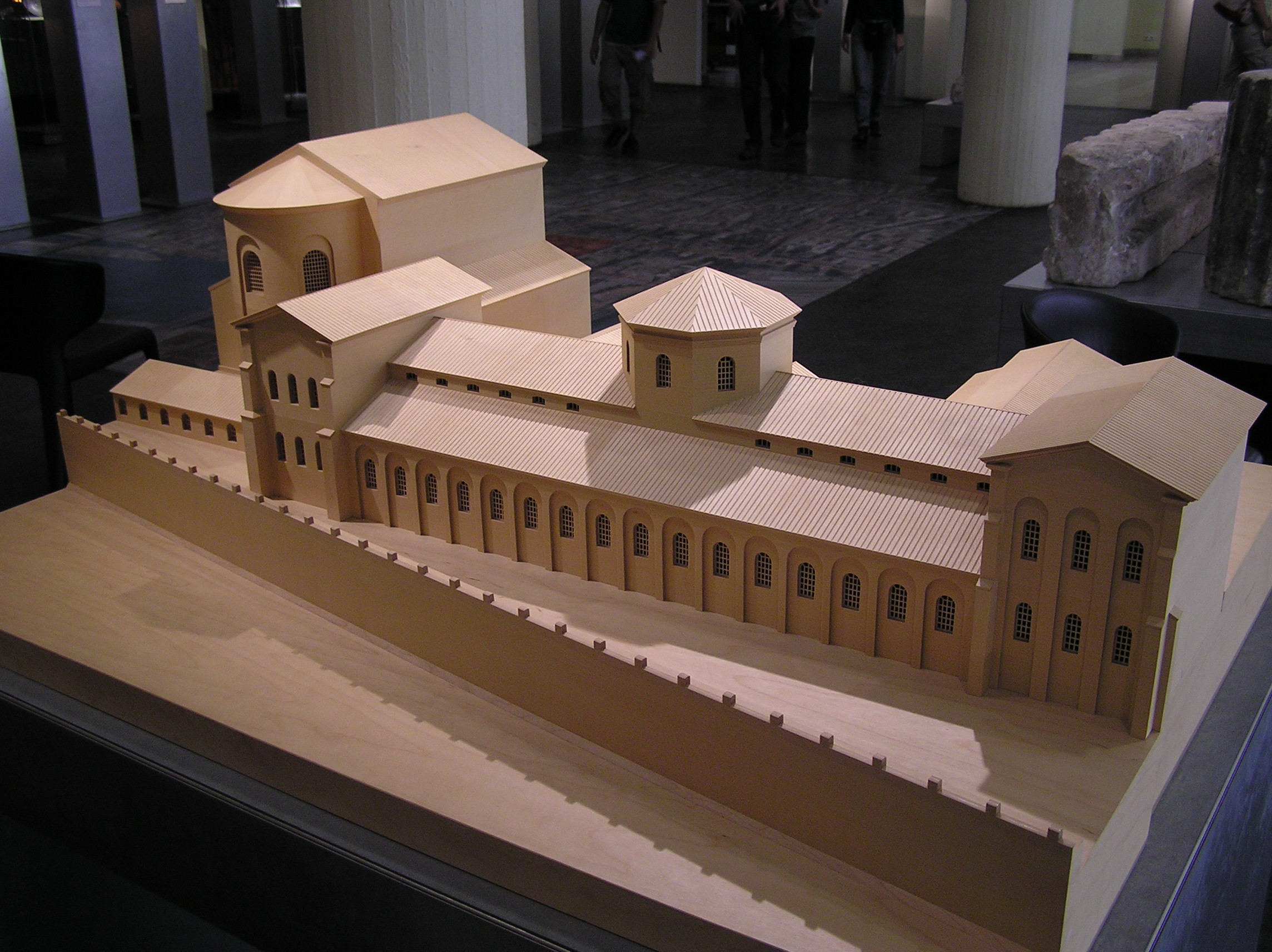 Scaled reconstruction of the roman Praetorium in Cologne, Germany. Remains of this building can be found underneath the townhall of Cologne (Entrance in the Budengasse).